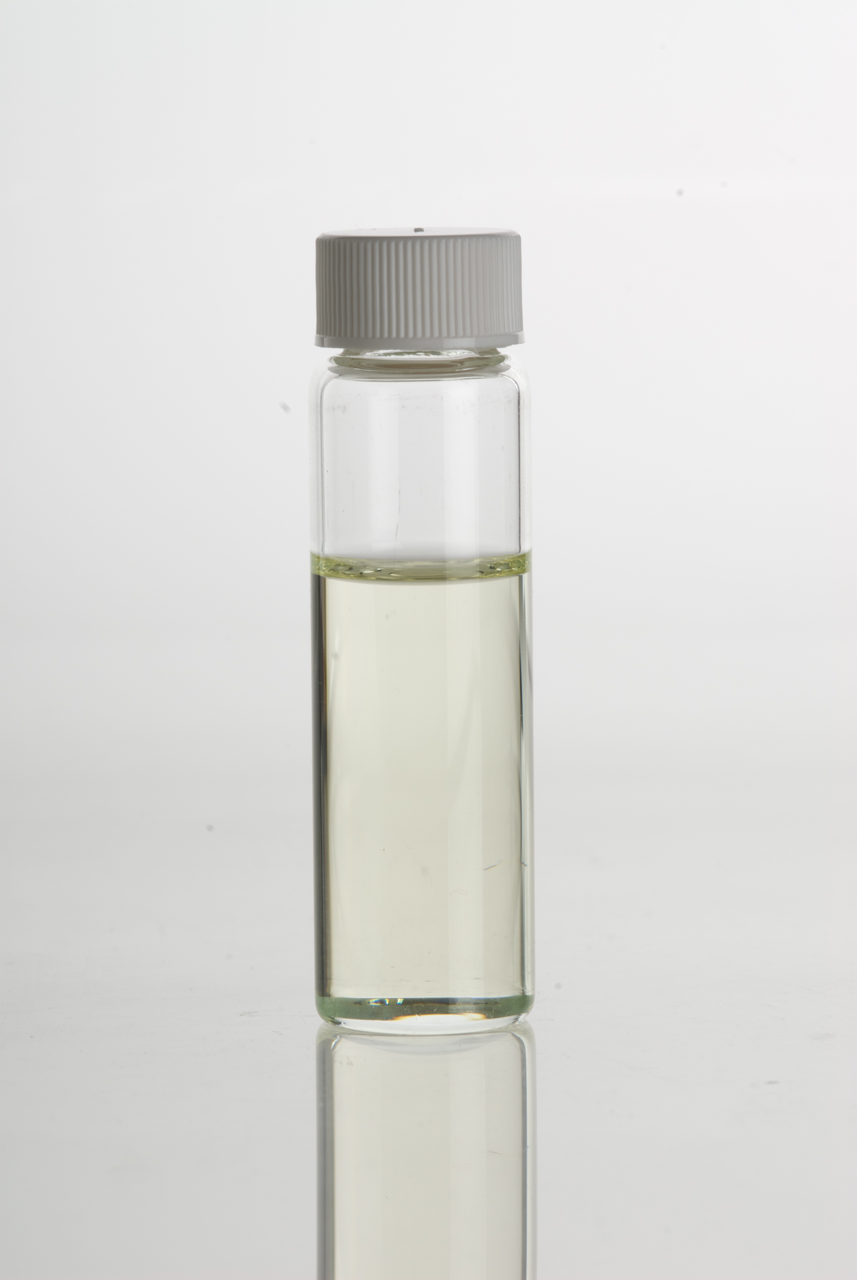 Peppermint (Mentha piperita) Essential Oil in clear glass vial